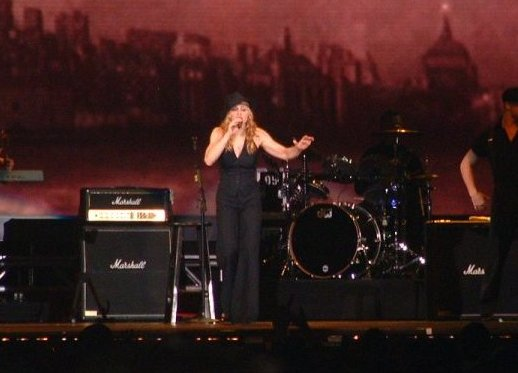 Picture taken by a fan from one of the 2004 concerts